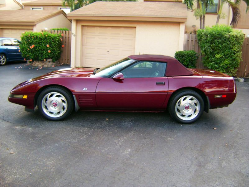 1993 Chevrolet Corvette Convertible 40th Anniversary Edition